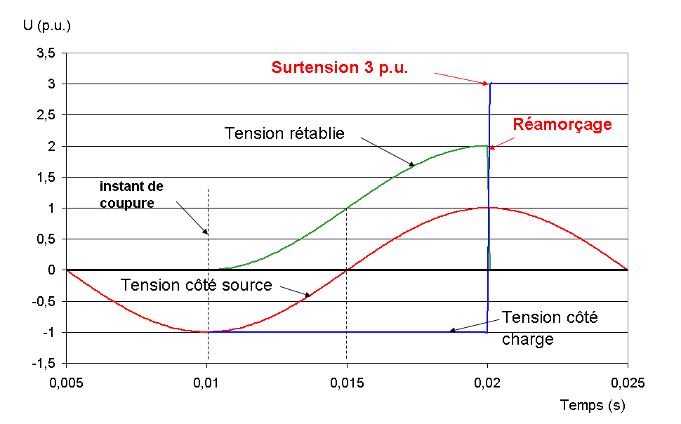 Correction of Fichier:Réamorçage disjoncteur-2.PNG